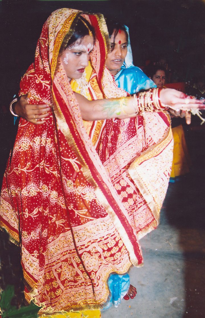 Khai poda is a custom performed during marriages in Odisha.